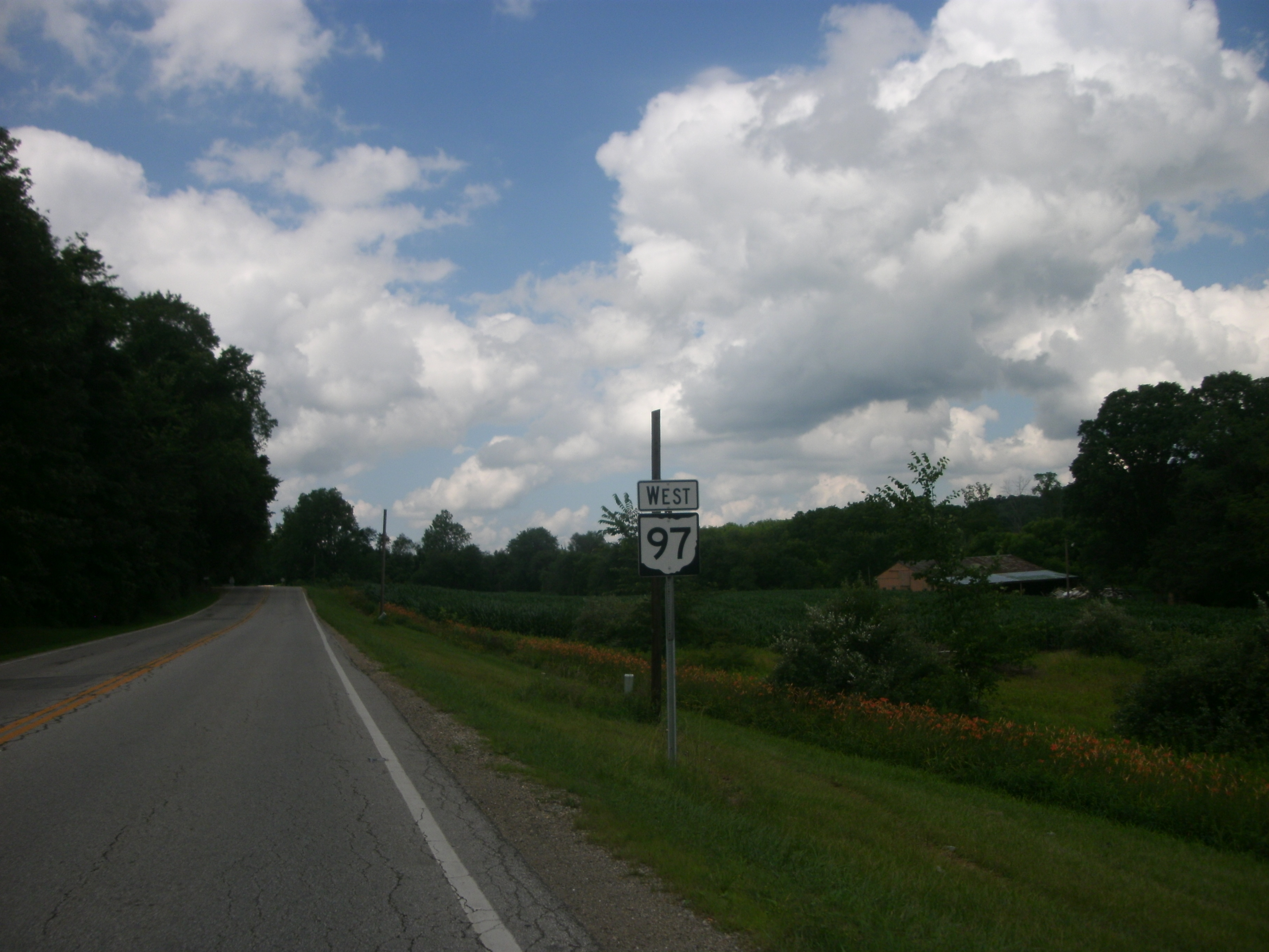 State Route 97 west of Lexington, Ohio.